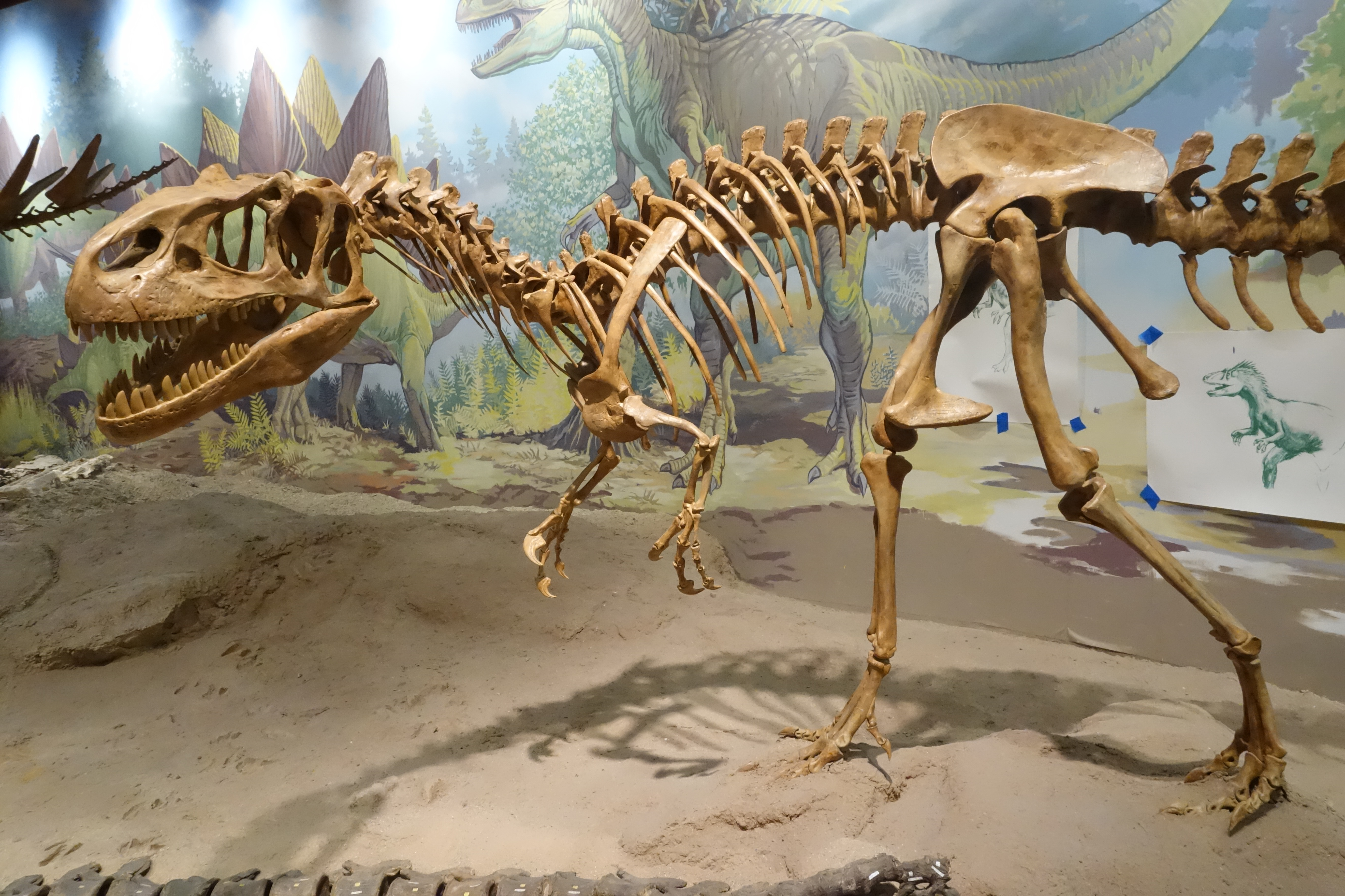 Allosaurus skeletal reconstruction (cast), on display at the Utah Field House of Natural History State Park Museum, Vernal, Utah.